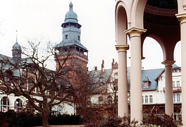 Wiesbaden Neroberg 1983